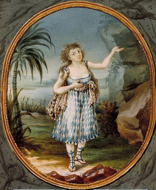 She is shown performing in the play Azemia, in the Leopoldstadttheater in Vienna.